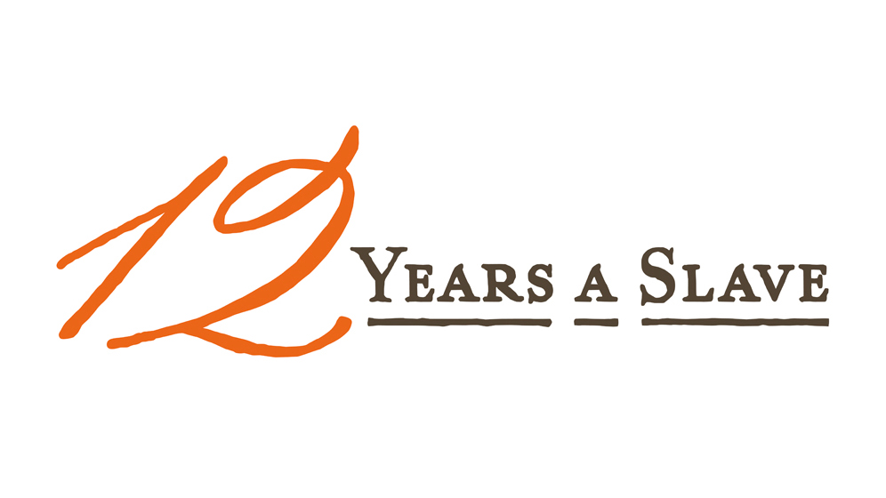 Logo of the film 12 Years a Slave directed by Steve McQueen